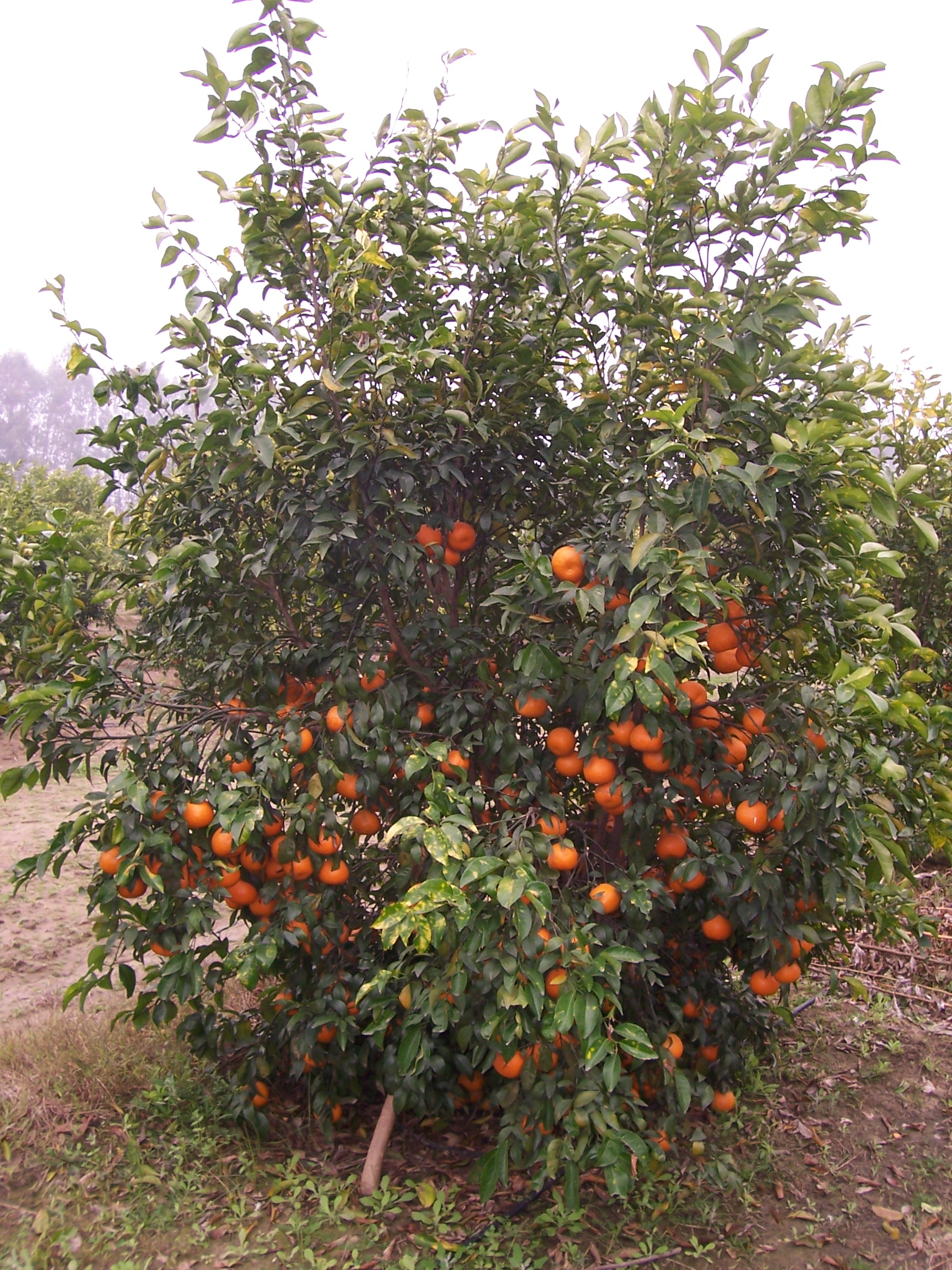 Kinnow tree growing in Punjab